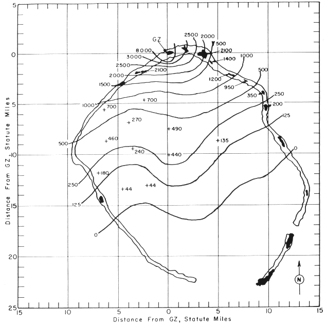 Fallout map showing radiation intensities (in rads/hour) an hour after the test